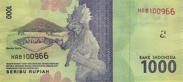 1000 rupiah bill, 2016 series, reverse